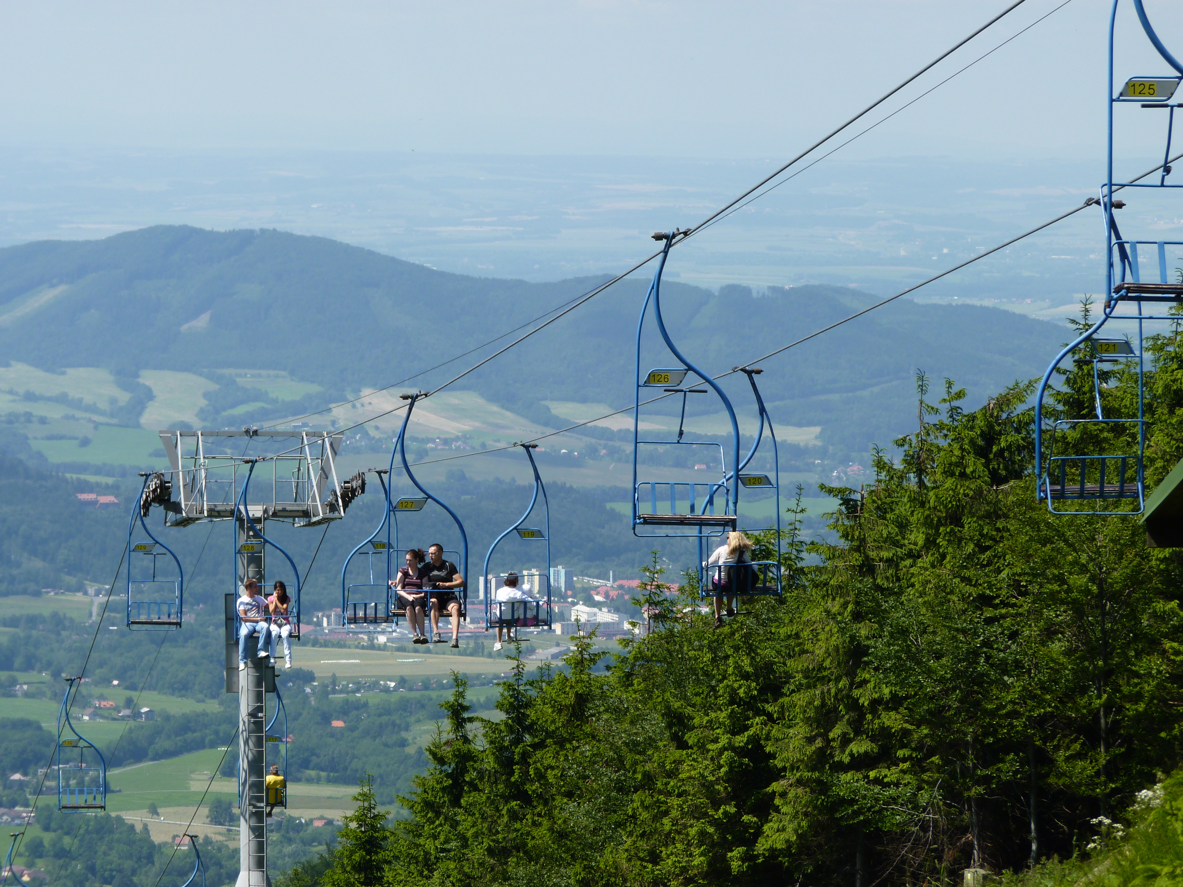 Pustevny in Moravian-Silesian Beskids